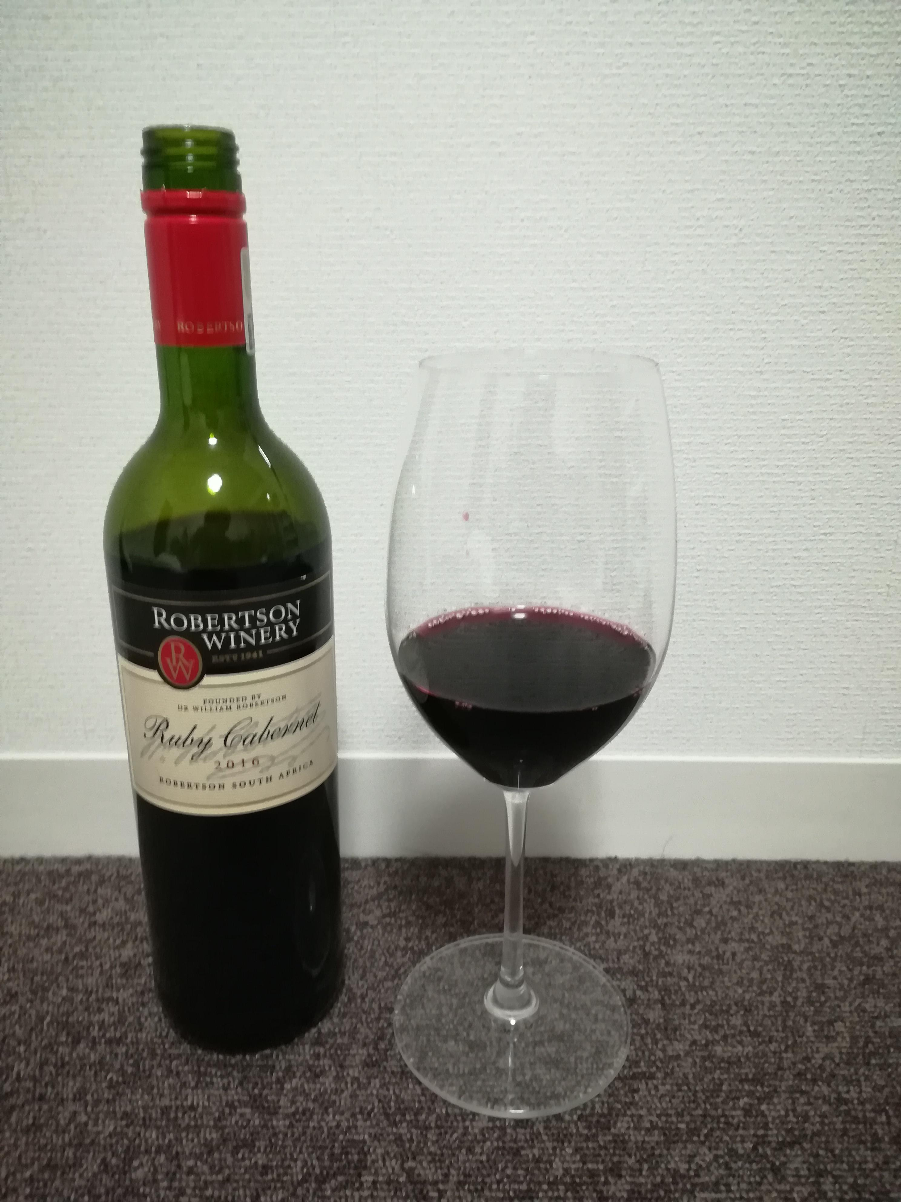 Wine of Ruby Cabernet from South Africa, 2016.